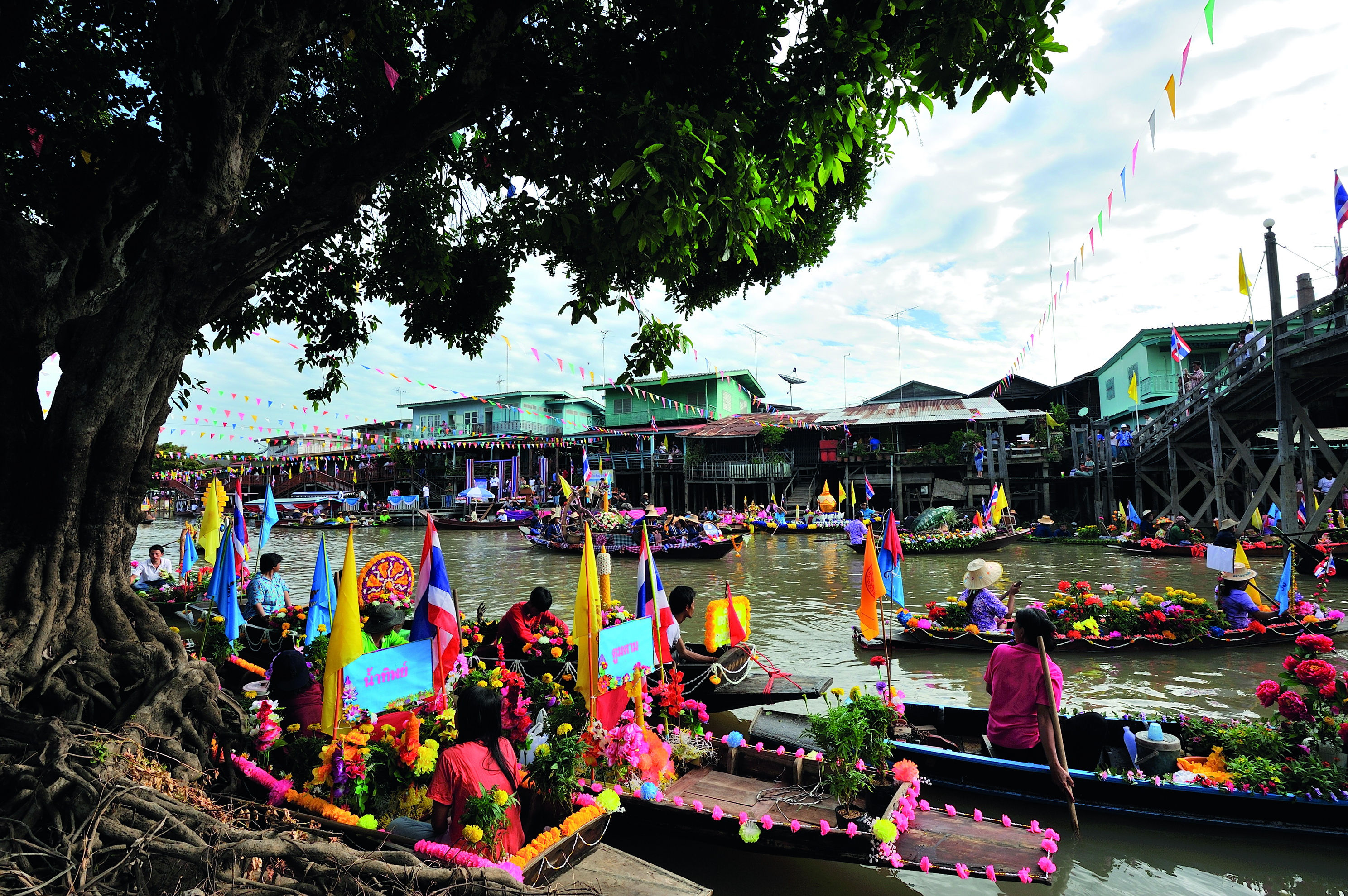 Located in PhakHai district, Ayutthaya province, Ladchado market is over a hundred years old. It is an area of conservation of the district and was awarded for outstanding architecture conservation in 2006. The market started from selling of a raft by the local and developed to be a market by the Noi river. Visitors to the market can enjoy grocery stores, old structures, and a film in a theatre with no charge. Ladchado community was called Ban Chakkarach but as there were a lot of Chado fish (Giant snakehead fish) so people call it Ladchado instead. On Asalha Puja Day, there will be an annual spectacular candle procession along the Ladchado canal. The ceremony features a parade of over a hundred cruising boats exquisitely decorated with candles and a wide choice of entertainment at night. It is considered “The only waterborne candle procession festival in the world”.